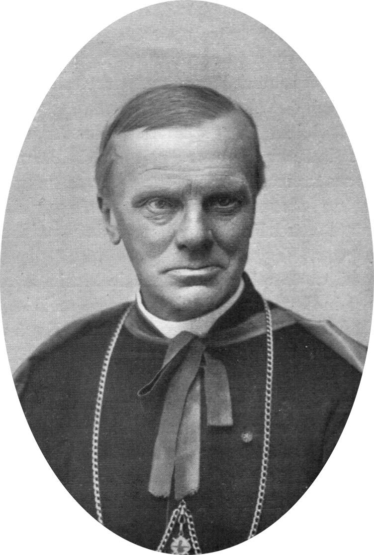 Charles Gustave Walravens (1841-1915), bishop of Tournai (1897-1915).